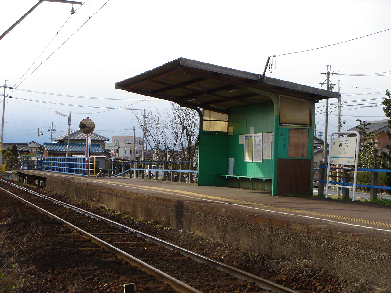 Makuwa Station in Motosu City, Gifu Prefecture, Japan